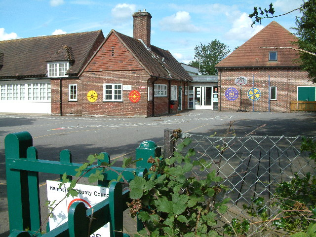 Tiptoe Primary School, Tiptoe, Hampshire.